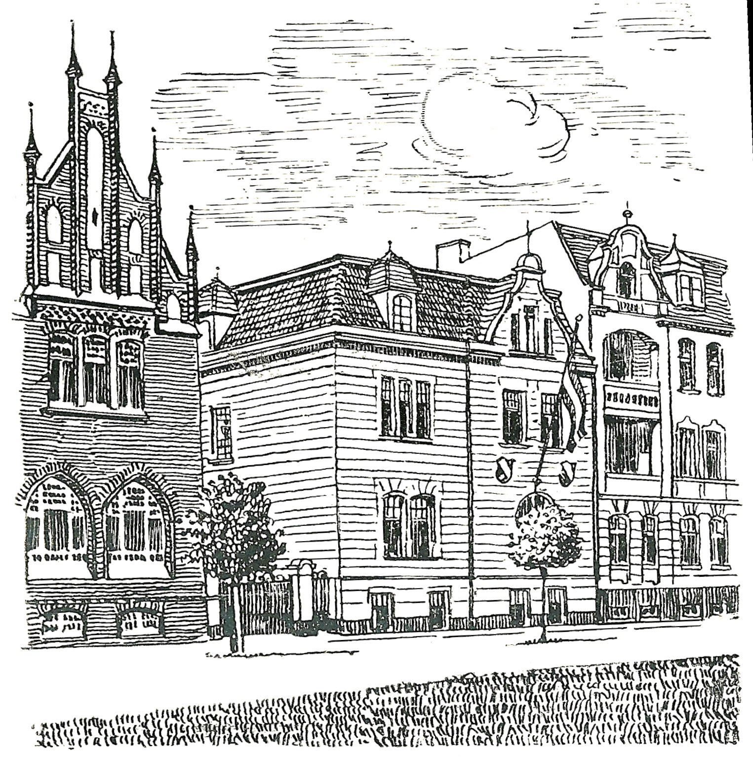 Former house of student fraternity Corps Borussia Greifswald / Germany, Arndtstrasse 10